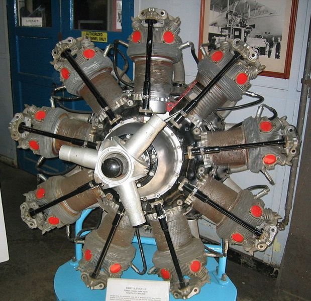 Bristol Pegasus at Brooklands PeterGrecian 14:49, 3 December 2006 (UTC)